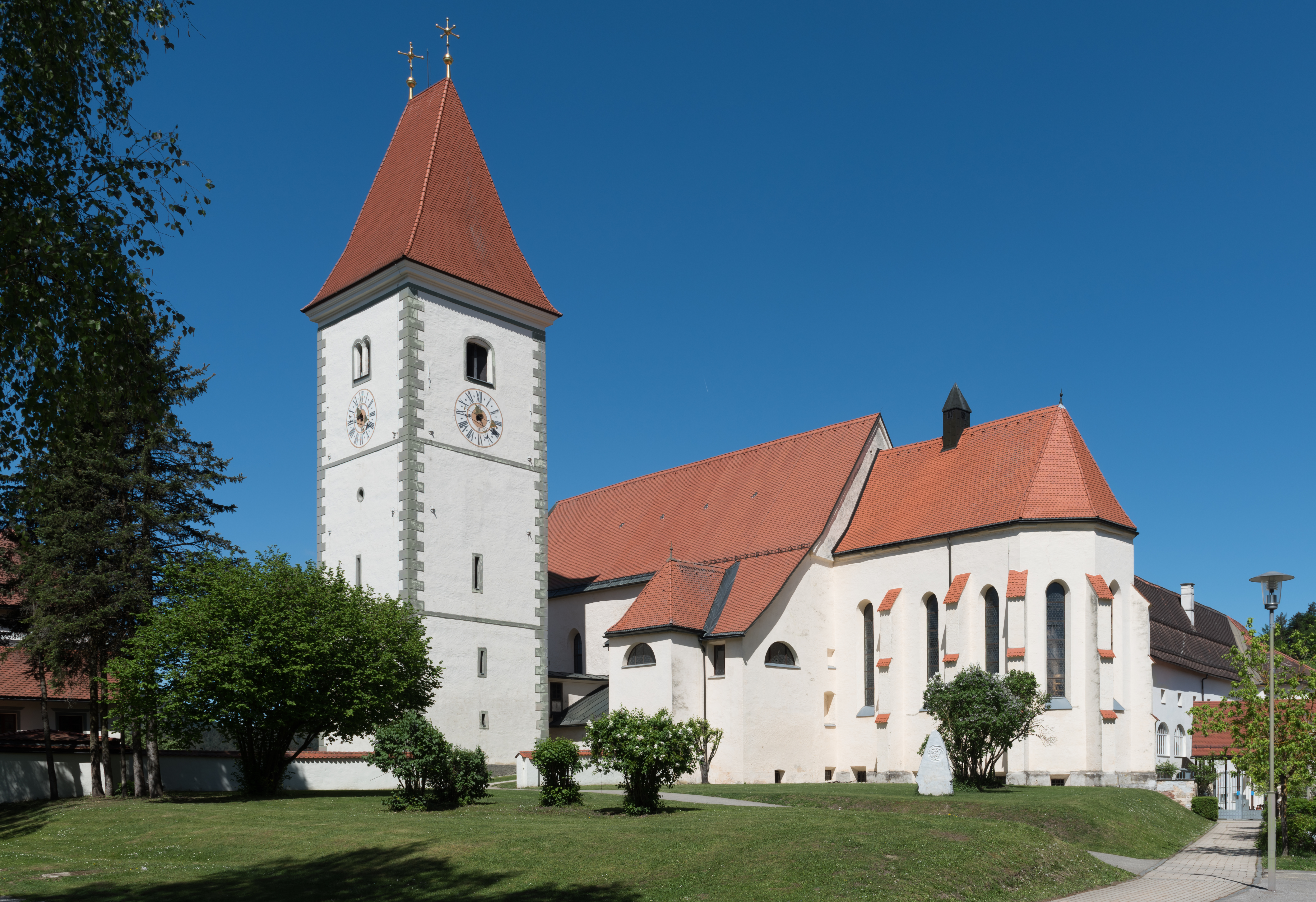 Parish and former collegiate church Assumption of Mary, market town Eberndorf, district Völkermarkt, Carinthia, Austria, European Union